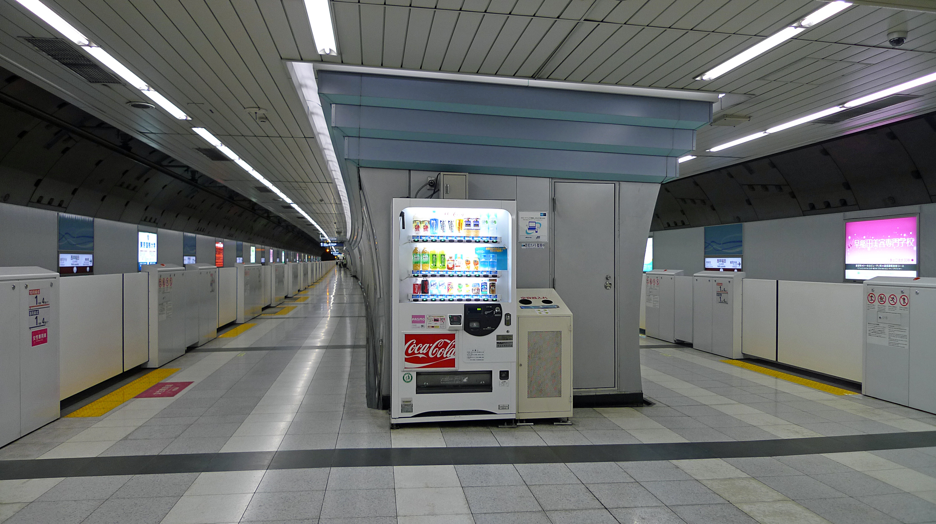 The platforms at Nishi-waseda Station on the Tokyo Metro Fukutoshin Line in Shinjuku, Tokyo